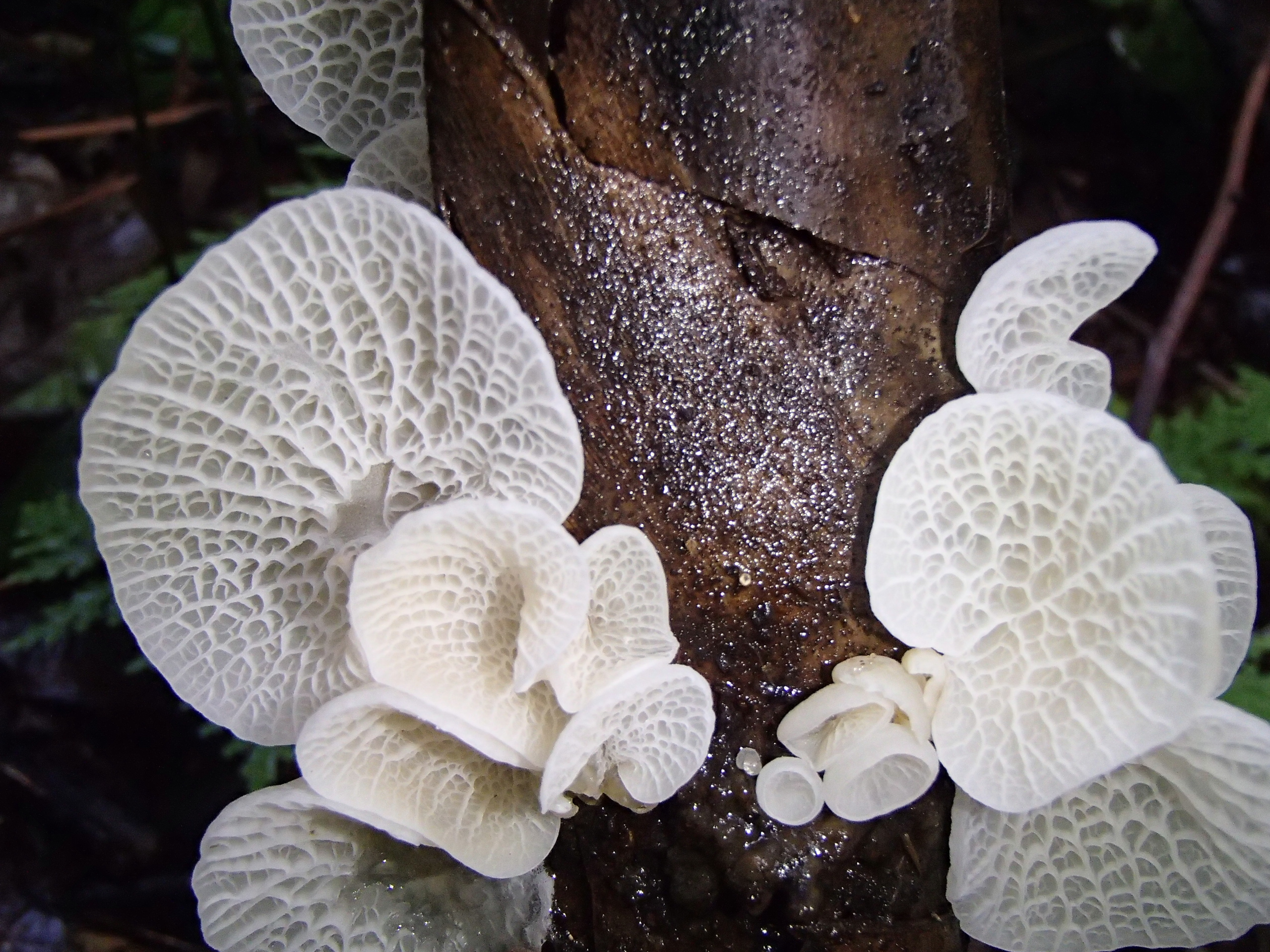 Auricularia delicata f. alba Kobayasi Image location: Cristalino Jungle Lodge, Alta Floresta, Mato Grosso, Brazil only the second example of this I’ve seen. would be very interested to see molecular work on this someday. Recognized by sight For more information about this, see the observation page at Mushroom Observer.